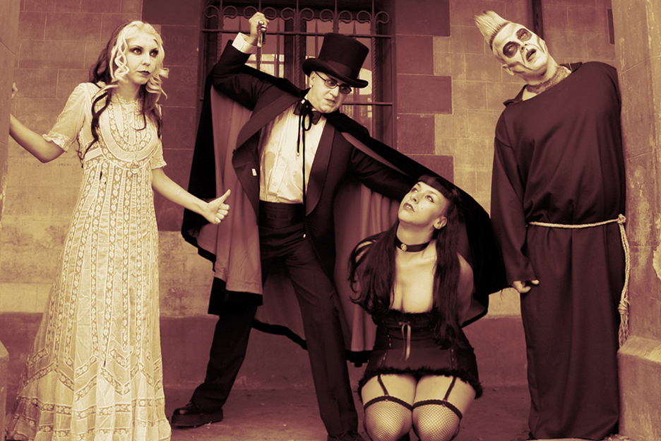 The band Calamitiez promotional press picture for release of Urban Legends 2008.